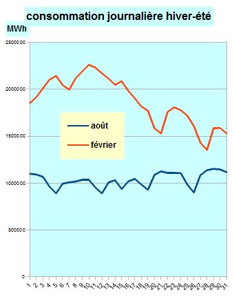 France's daily power demand in a winter month (february 2012) and a summer month (august 2012) data from : RTE (french power grid manager)